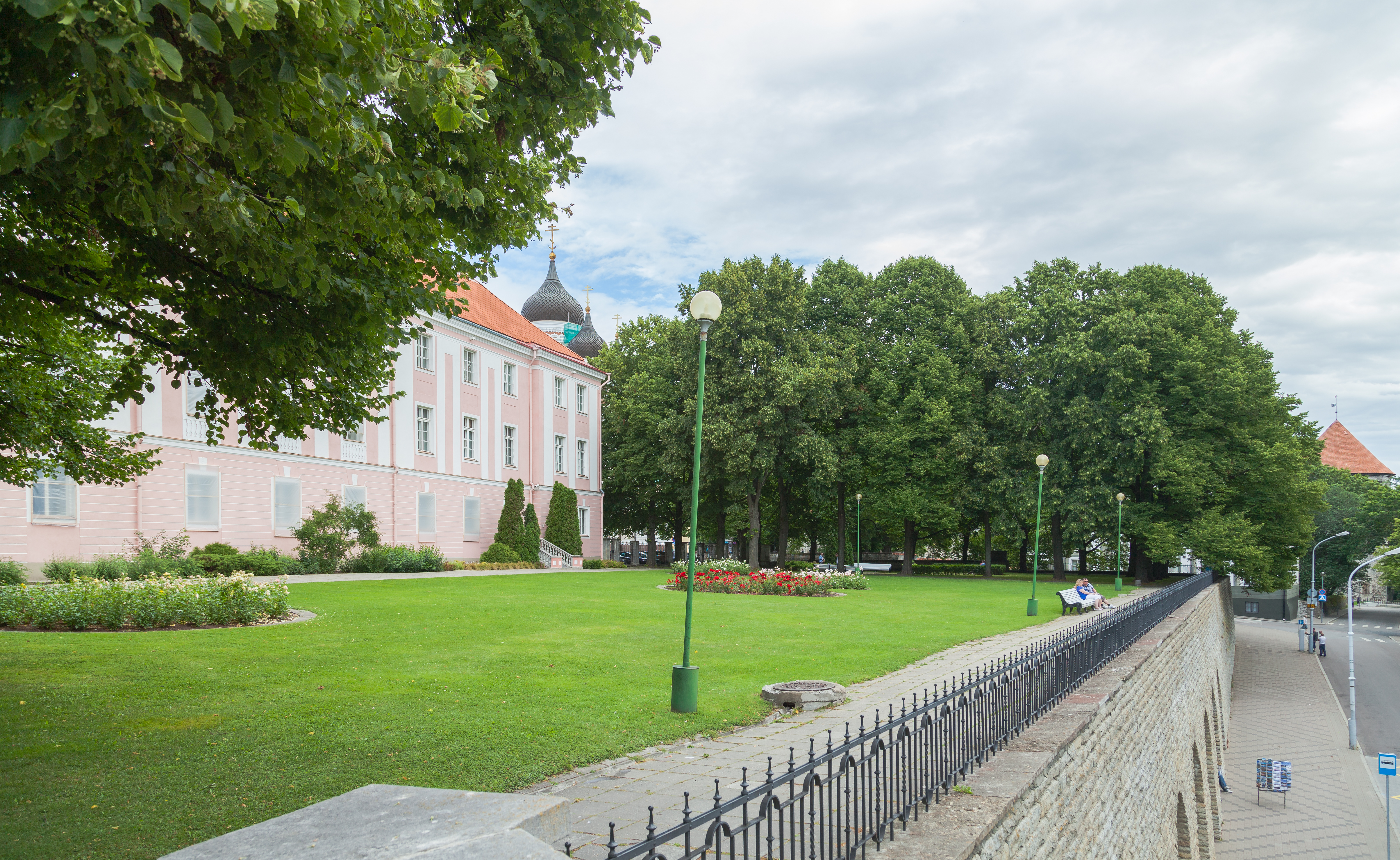 Estonian Government, Tallinn, Estonia